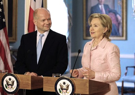 Secretary Clinton met with British Foreign Secretary William Hague in the Treaty Room at the Department of State, May 14, 2010